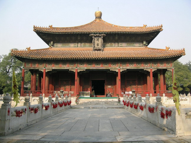 国子监辟雍殿. A building in the Guozijian in Beijing. zh:2004年11月6日smartneddy摄于zh:国子监，授权使用